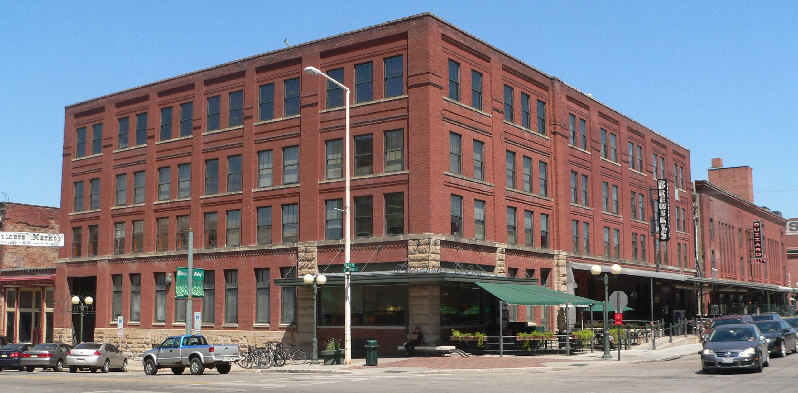 Haymarket District in Lincoln, Nebraska: northwest corner of 8th and P Streets. P runs westward to the left; 8th runs northward at the right edge of the photo.